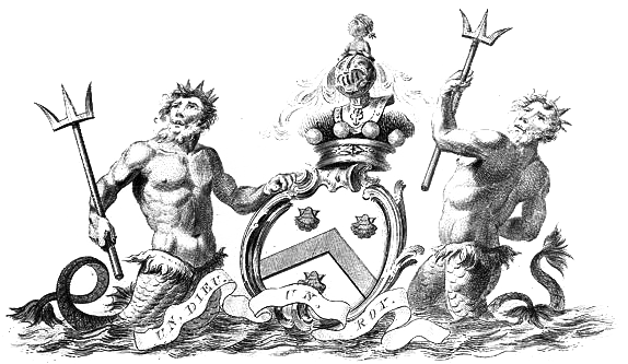 Source: Catton's English Peerage, 1790